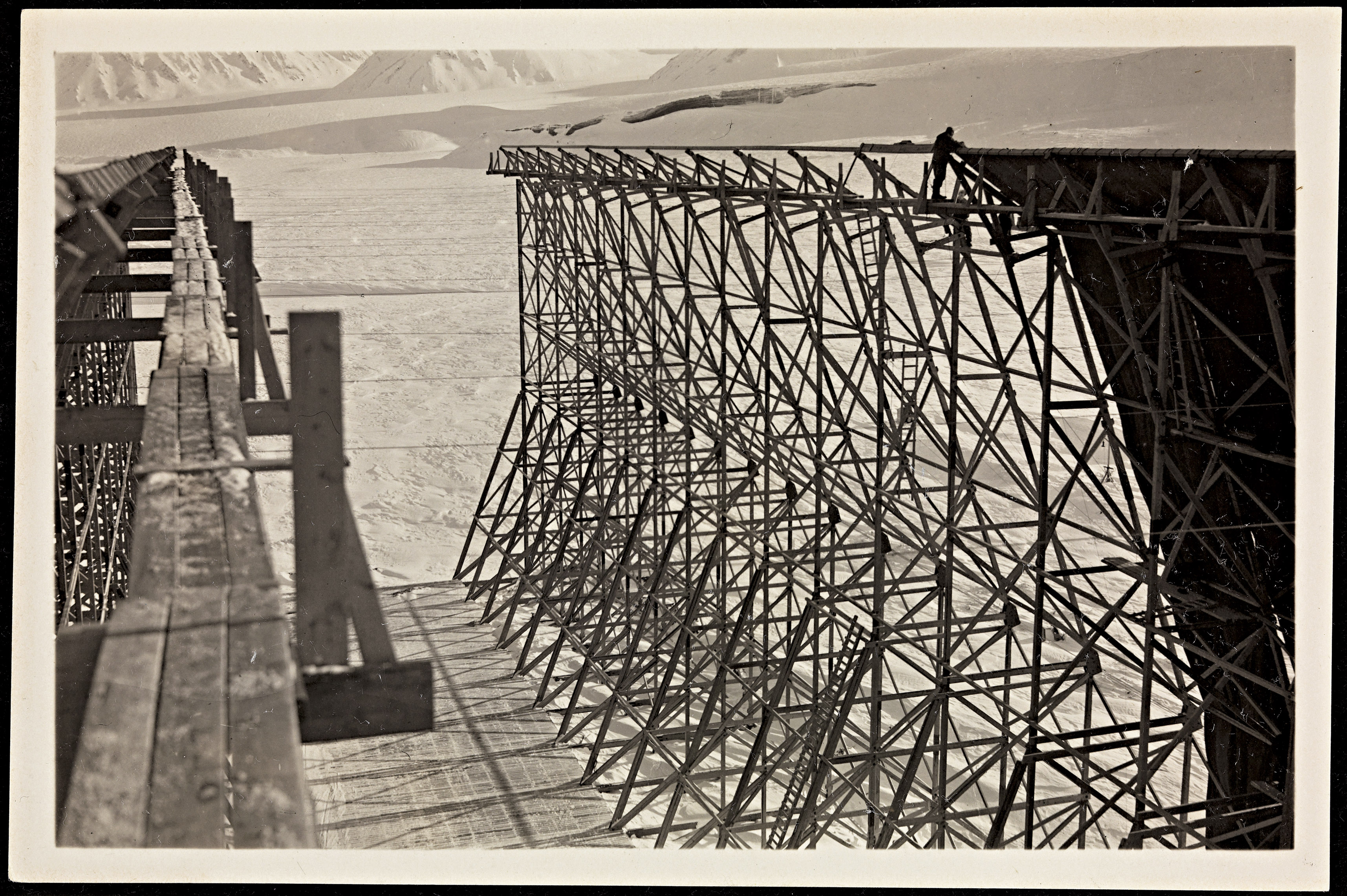 Tittel / Title: Luftskiphallen i Ny-Ålesund trekkes med duk Beskrivelse / Description: Gelatin papirpositiv. Dato / Date: 1926 Fotograf / Photographer: Ferdinand Reinhardt Arild Sted / Place: Svalbard, Ny-Ålesund Eier / Owner Institution: Nasjonalbiblioteket / National Library of Norway Lenke / Link: Bildesignatur / Image Number: bldsa_NPRA2644